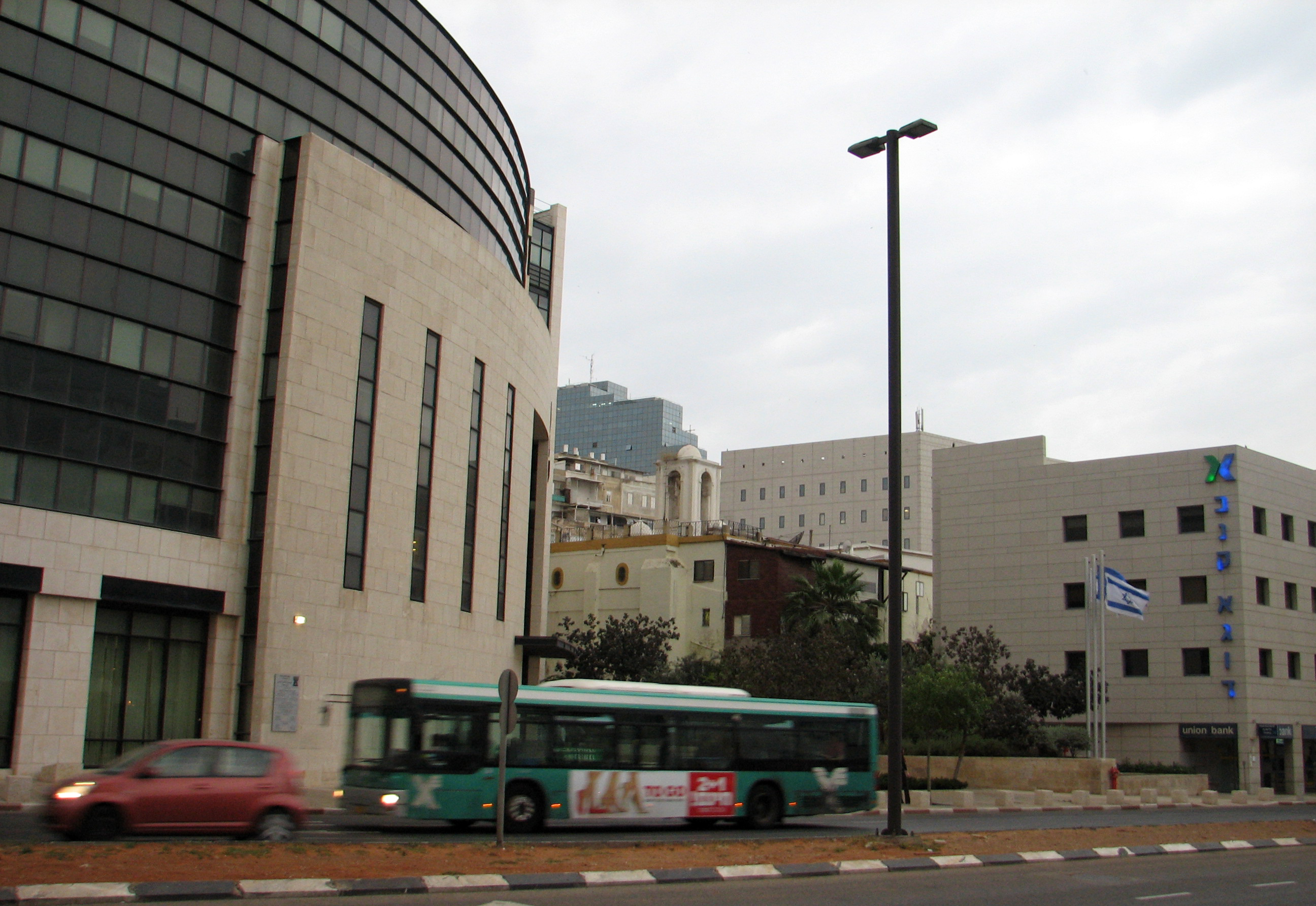 Off-port institutional and traffic artery – Palyam Avenue, Downtown HFA, Israel. The rounded façade on the left is the national insurance building.